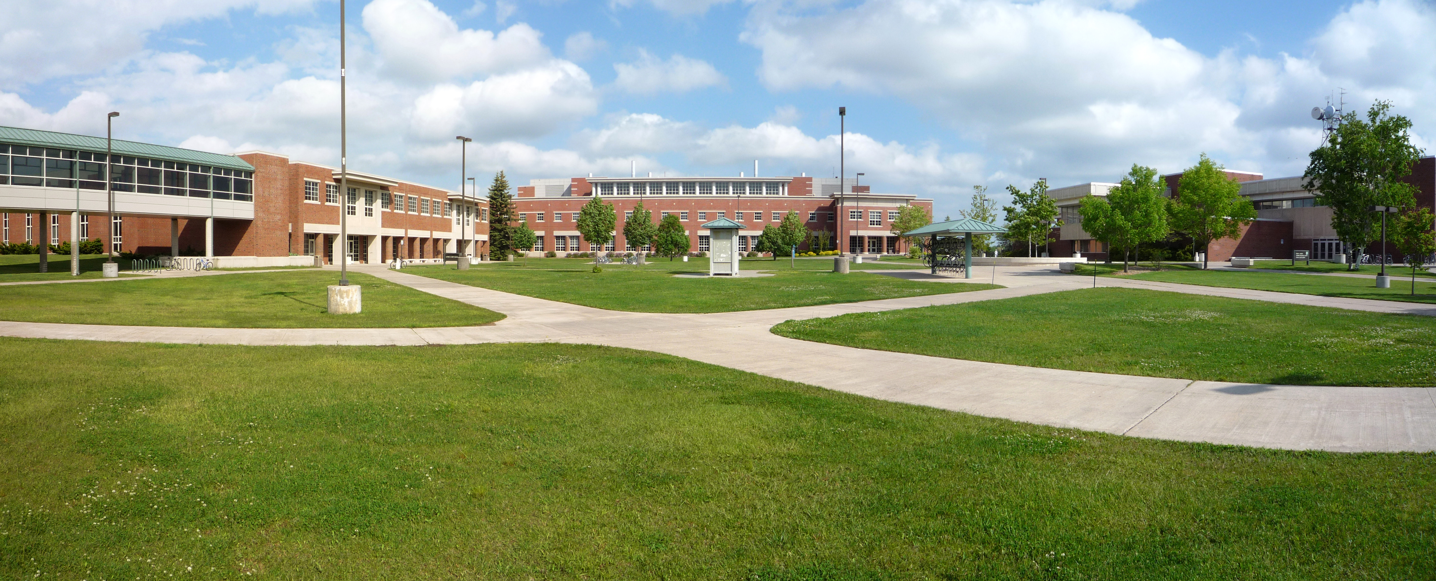 The Academic Mall, Northern Michigan University, Marquette, Michigan, USA. From left to right: a bridge coming from Jamrich Hall (behind camera), West Science, New Science Facility and the Learning Resource Center.